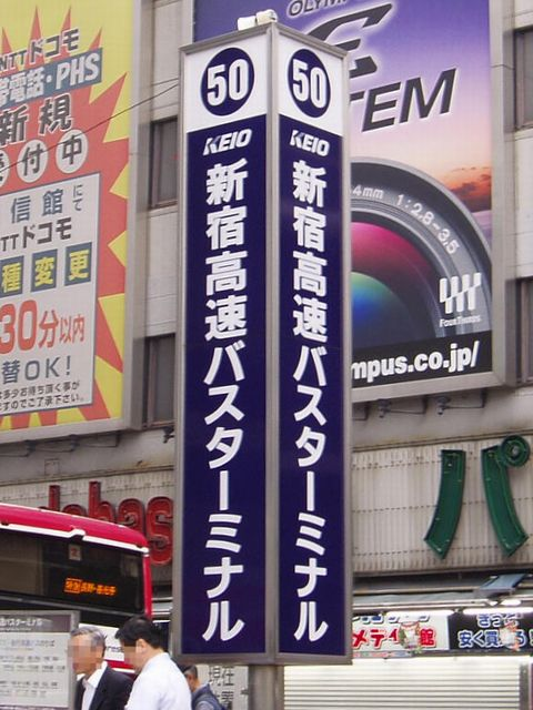 Guide display in front of Shinjuku highway bus terminal. The platform number is the 50th.